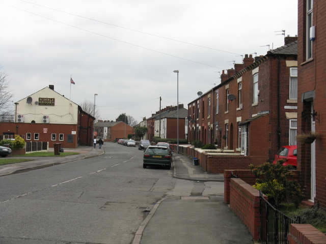 Chadderton - Foxdenton Road Near The Nimble Nook